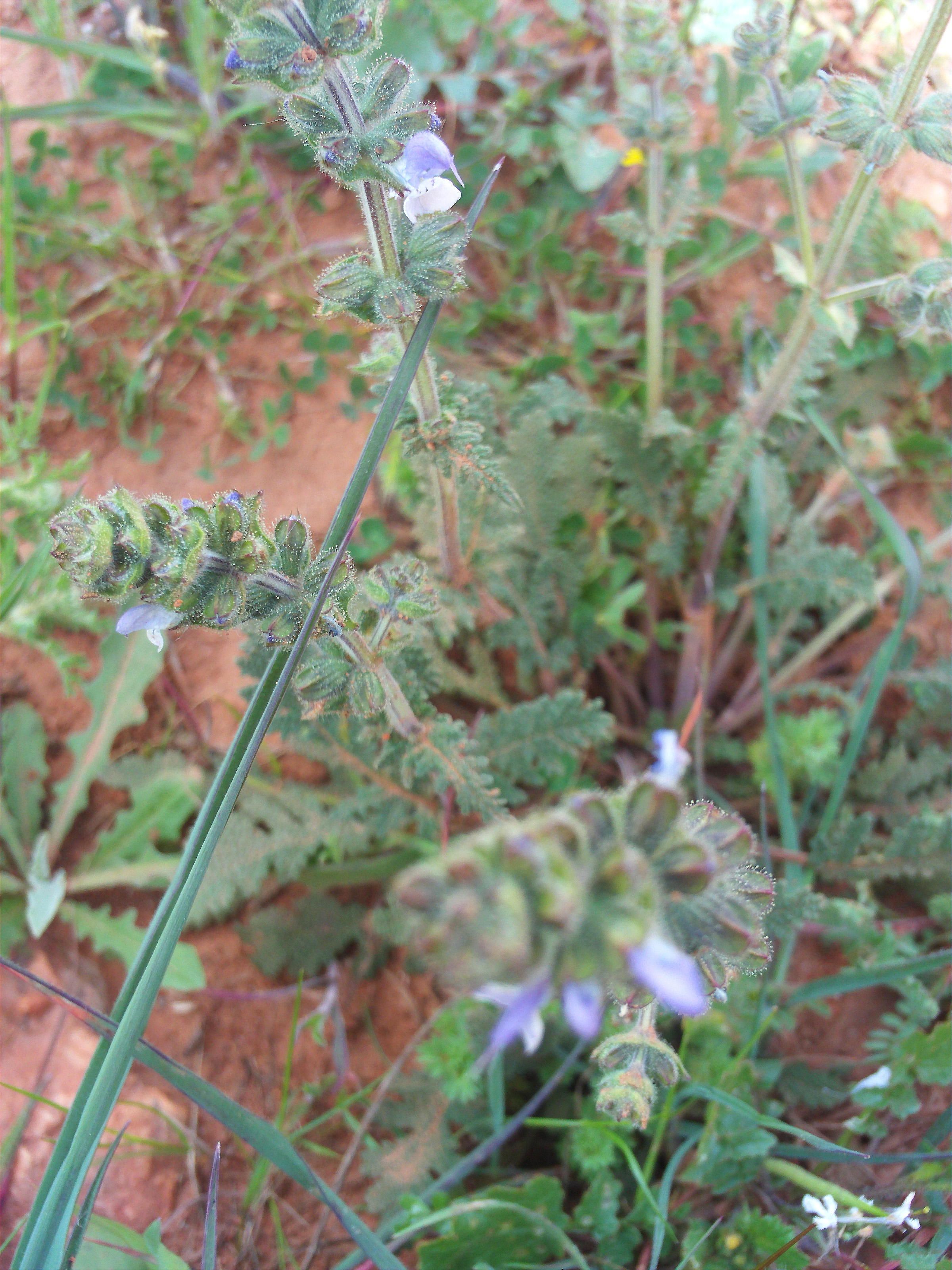 Salvia verbenaca flowers closeup, Dehesa Boyal de Puertollano, Spain